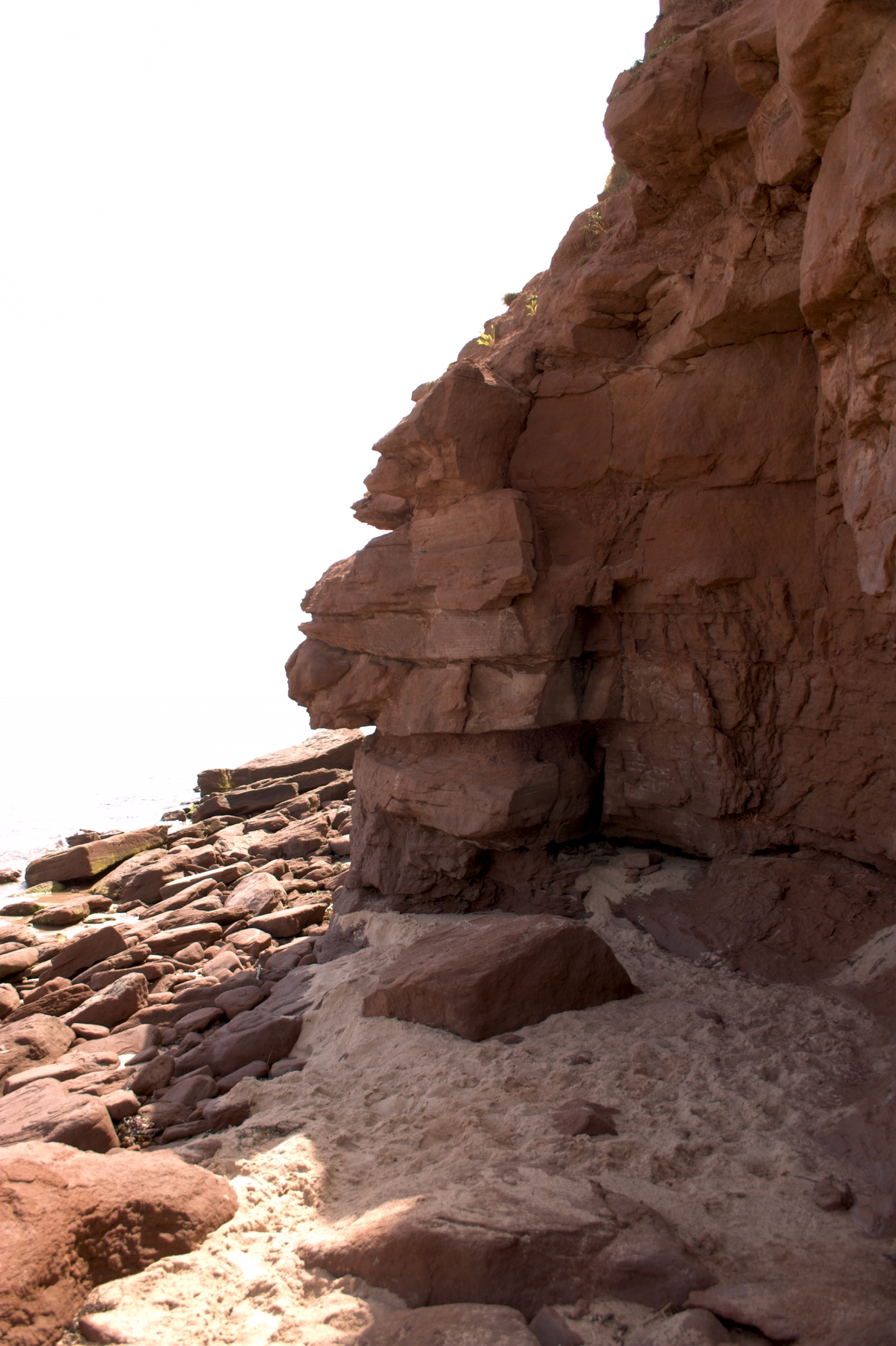 Singing Sands are located there, I went swiming in the ocean, and we enjoyed the sun on the beach!